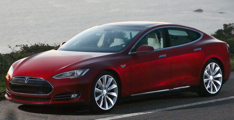 Tesla Model S Signature